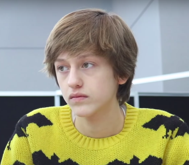 American actor Percy Hynes White interviewed by Geeks of Doom at New York Comic Con 2017.